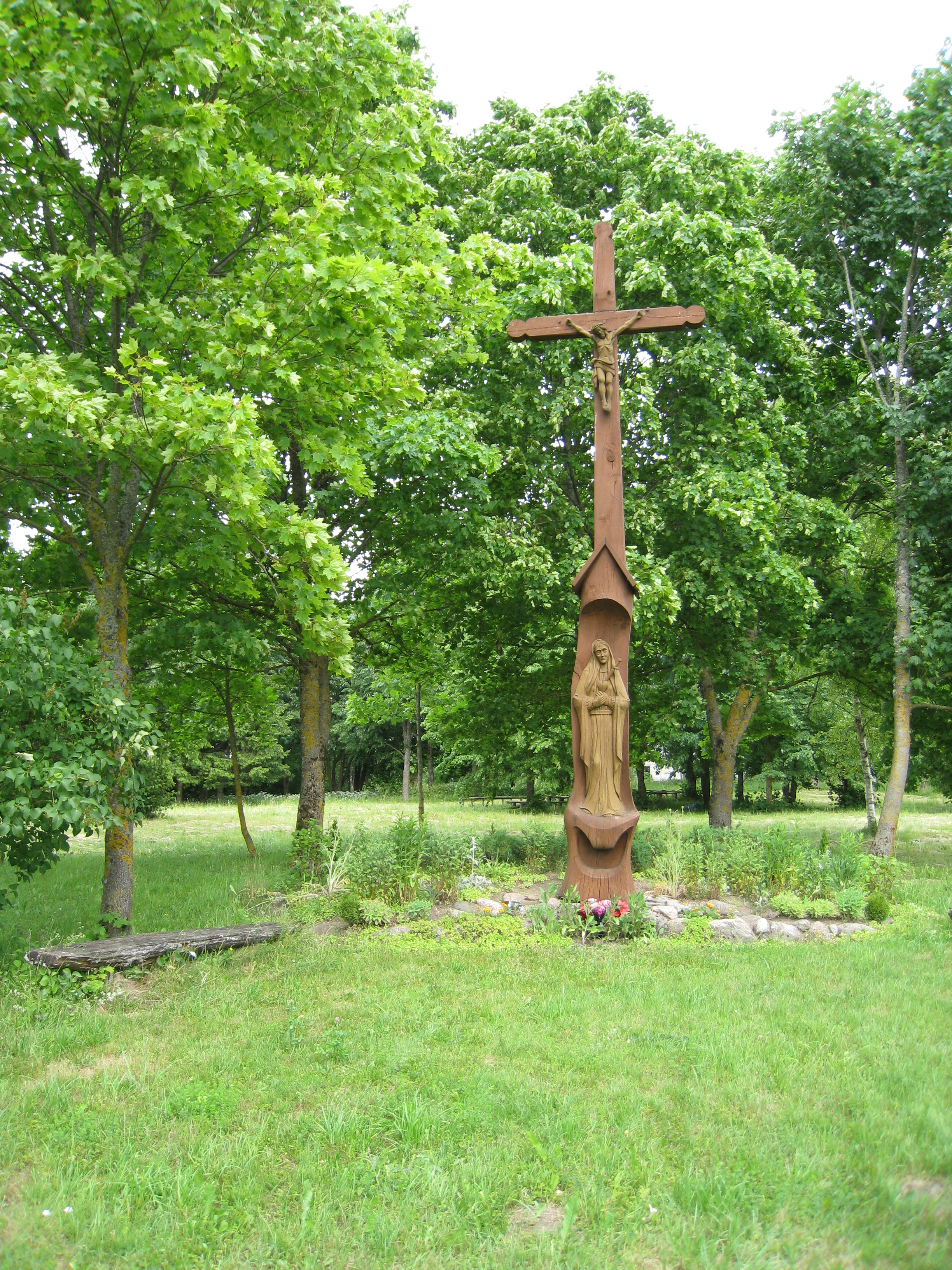 Senoji Įpiltis, Kretinga district, Lithuania